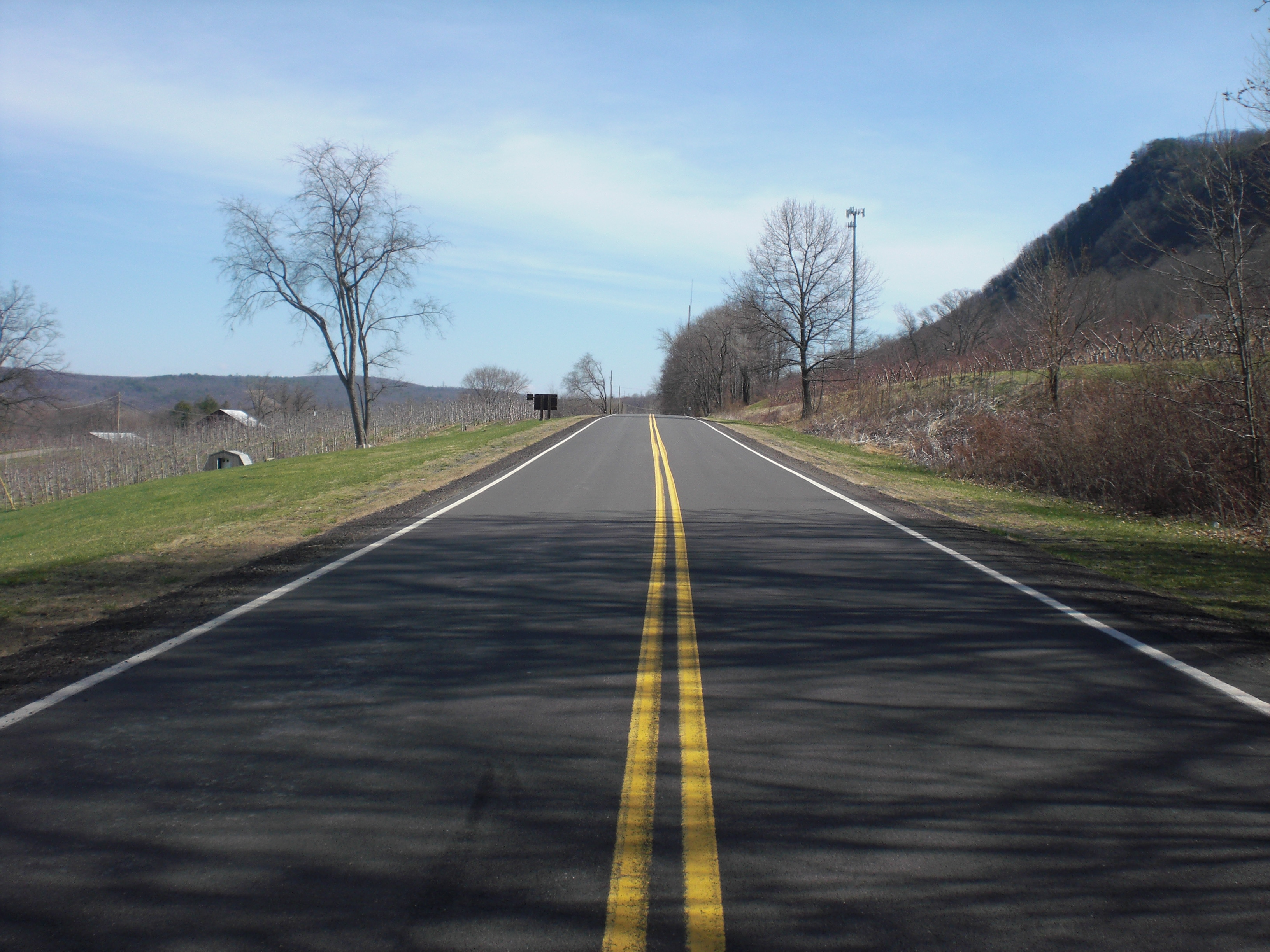 Pennsylvania Route 239 looking north in Wapwallopen